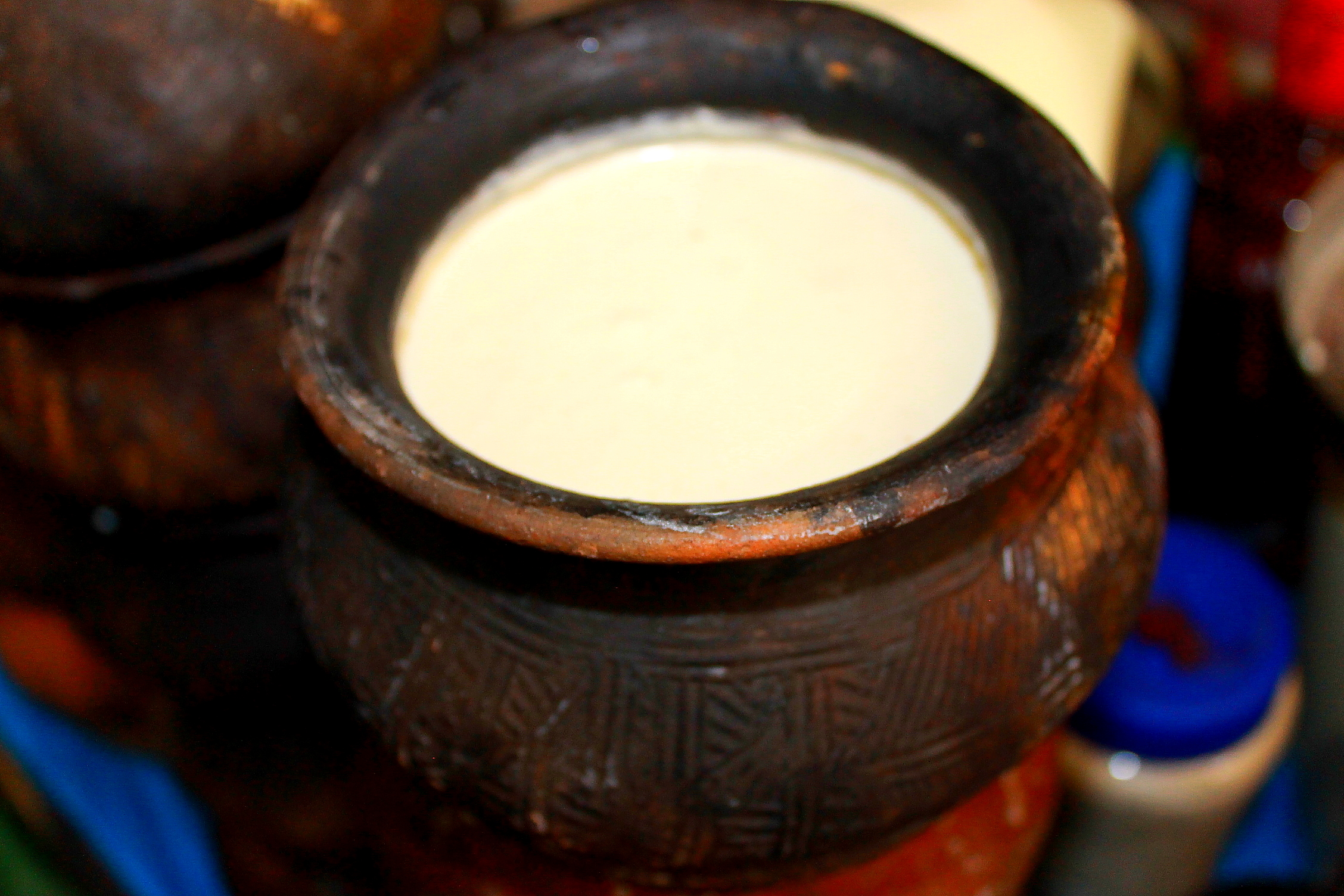 Curd being prepared in a traditional Manipuri earthen pot.